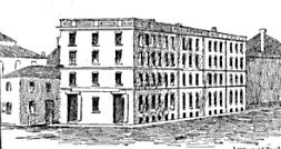 Merchants Hall, corner Water and Congress St., Boston, Massachusetts, 1831. The Mercantile Library Association was in Merchants Hall ca.1820s-1830s.